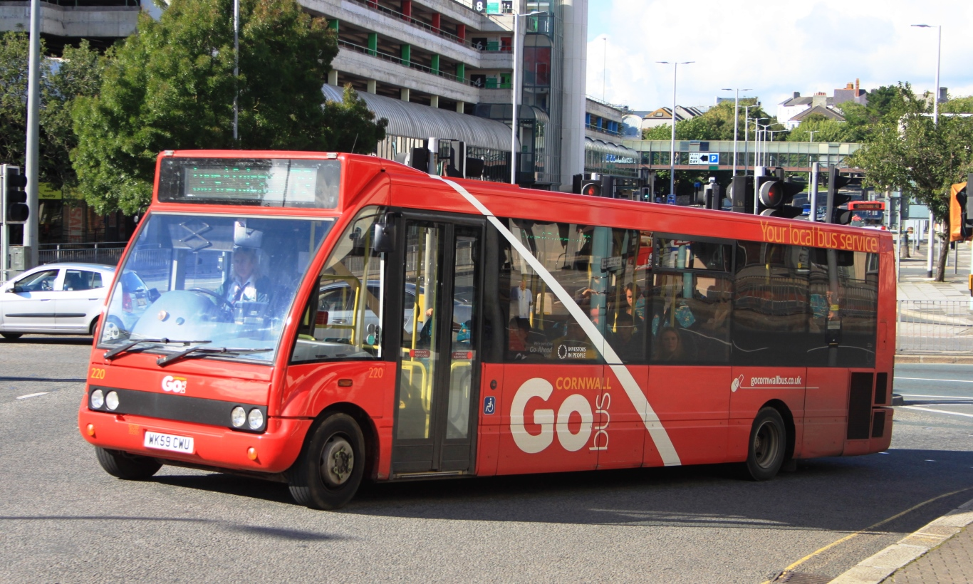 Go Cornwall Bus 220 (an Optare Solo M920 registered WK59CWU) makes the turn from Union Street into Western Approach as it heads out of Plymouth and back to Cornwall.